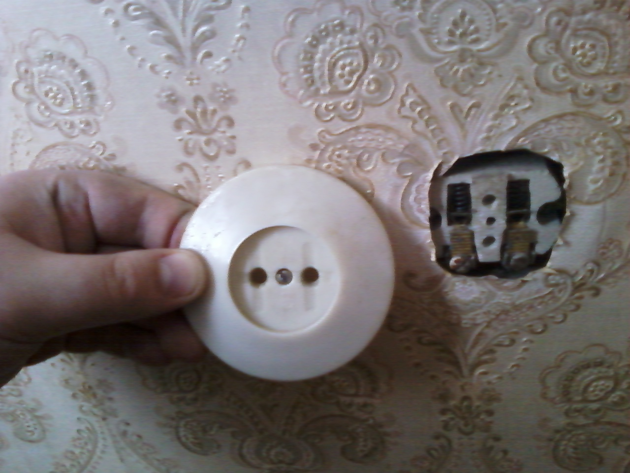 Old Soviet socket drenched by glue. As usual such installations become covered by corrosion and begin to melt when some powerful load is connected. Also, there you can find, that holes were improperly drilled to connect powerful West-European home appliences.